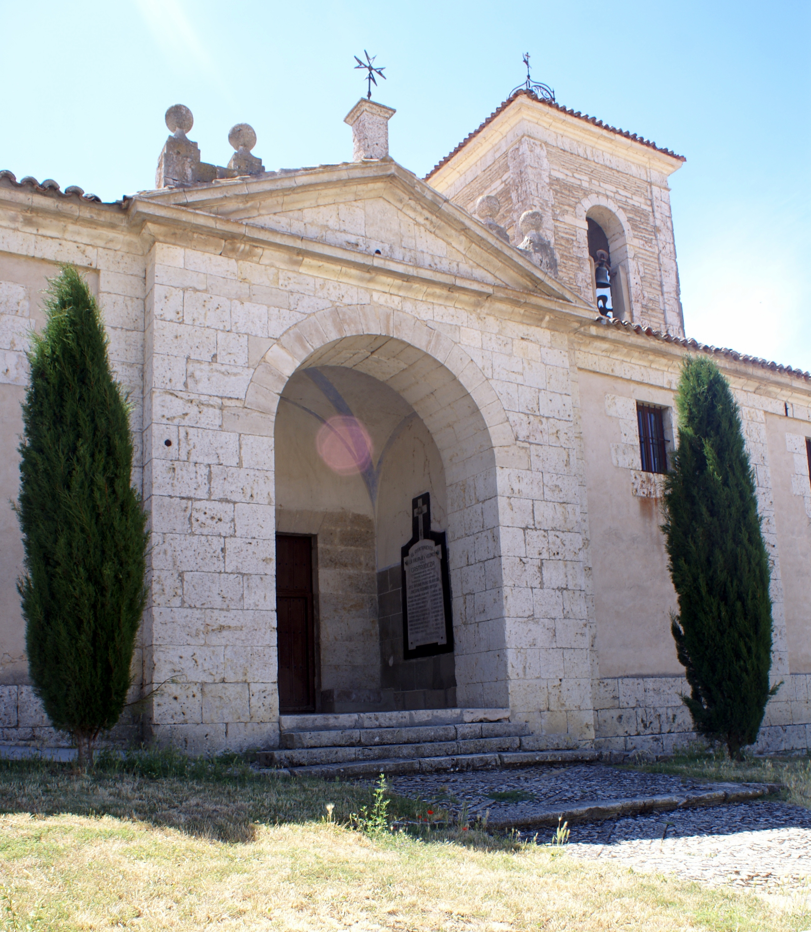 Church of St. Mary in Castrodeza, Valladolid, Spain.